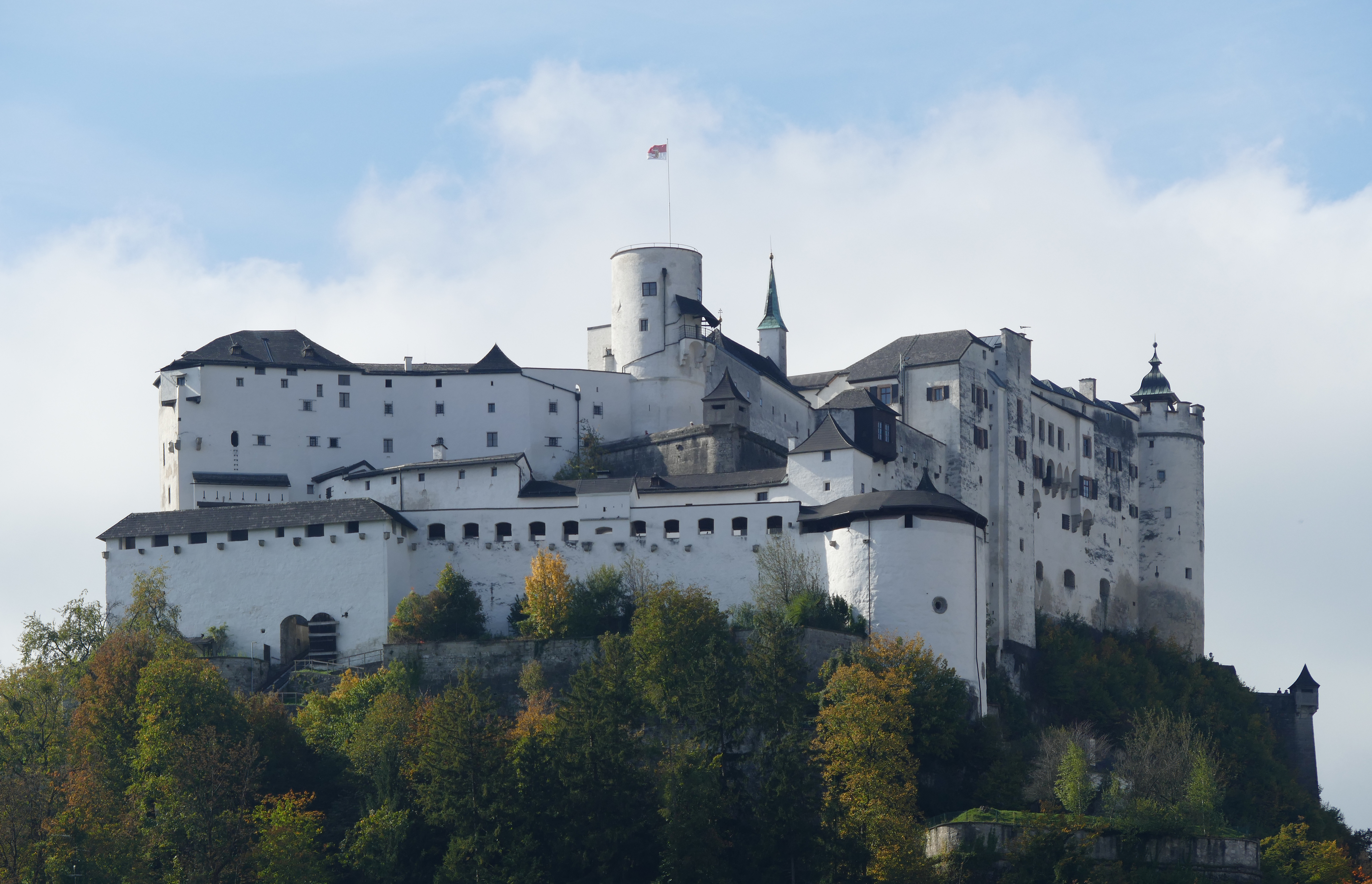 Fortress Hohensalzburg seen from north-east, City of Salzburg, Austria.